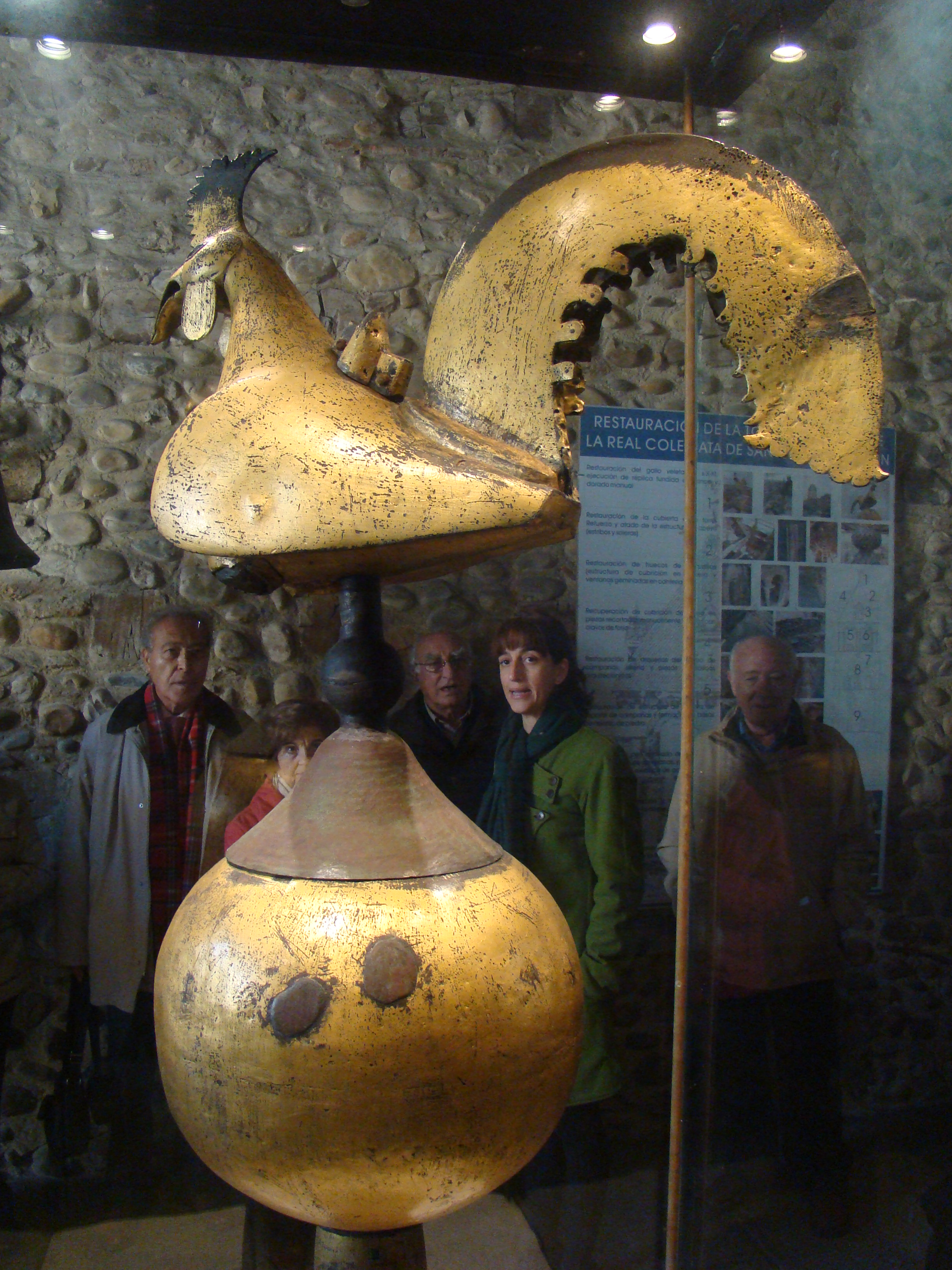 Original weathercock previously located at the top of the romanesque tower of San Isidoro de León (León, Spain). It is kept in the museum of the cloister. A duplicate of the original work was made to set onto the tower.